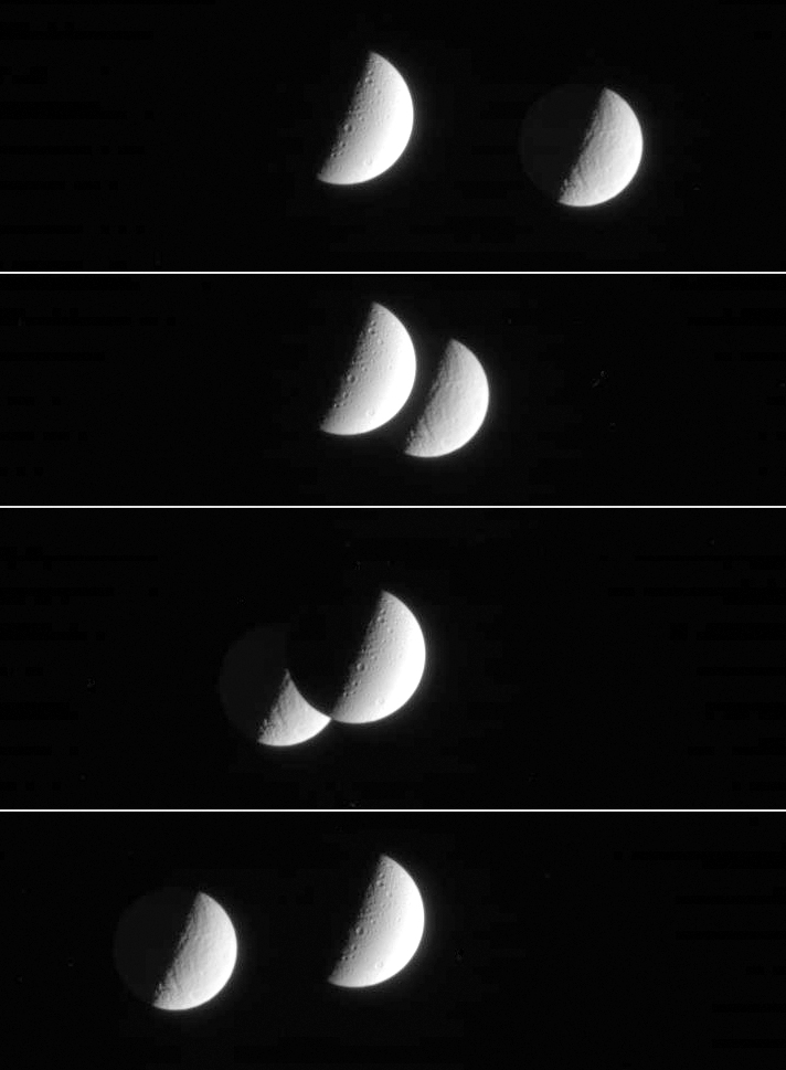 Occultation Courtesy NASA/JPL-Caltech